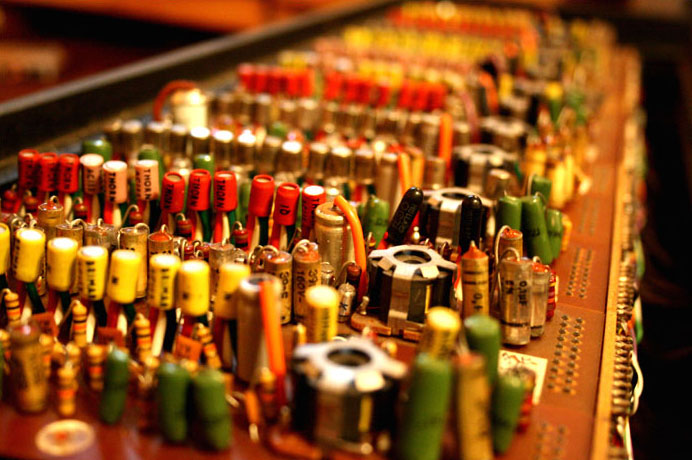 Vox Continental Internal Workings